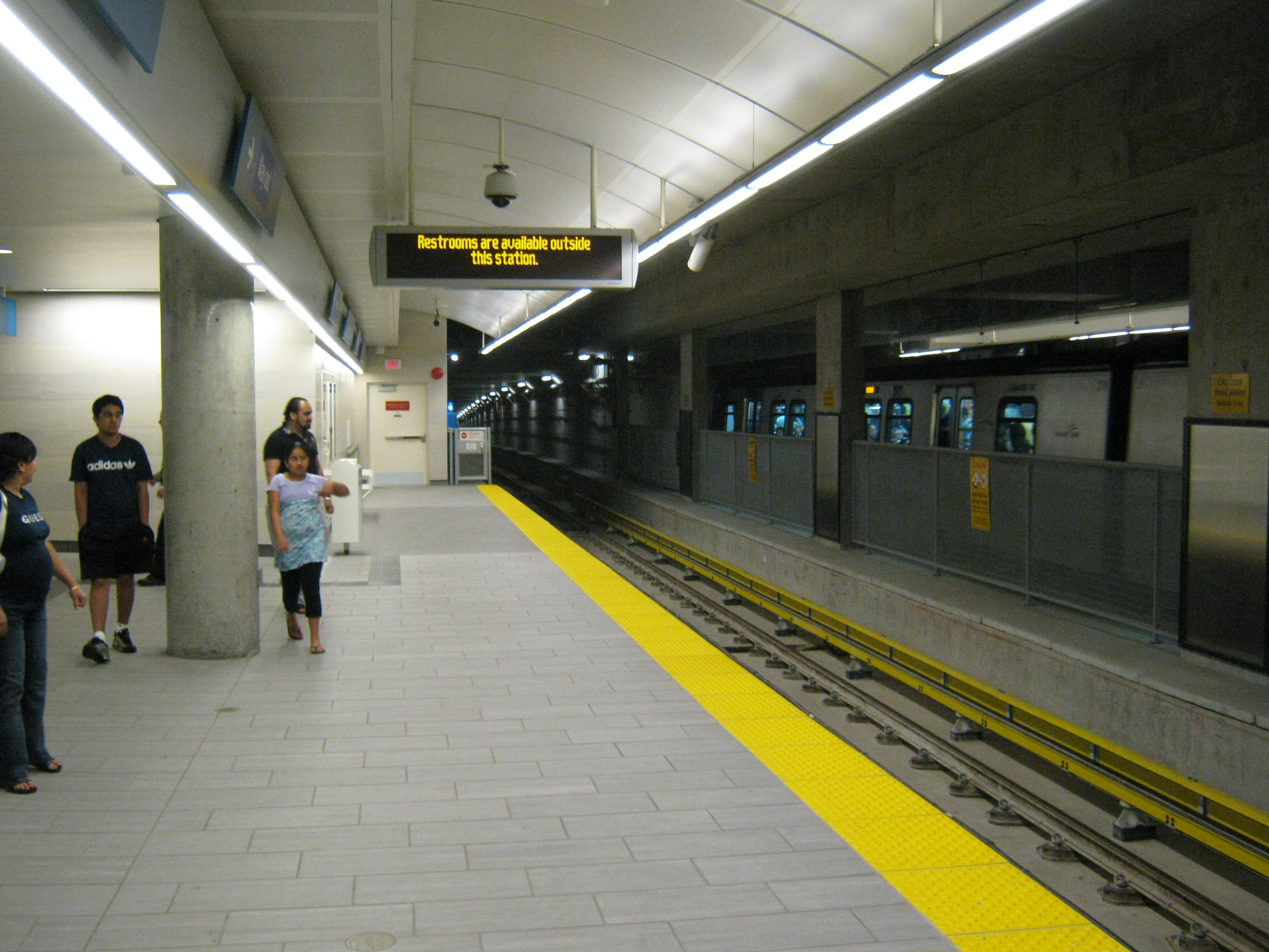 A picture of Langara-49th Avenue Station